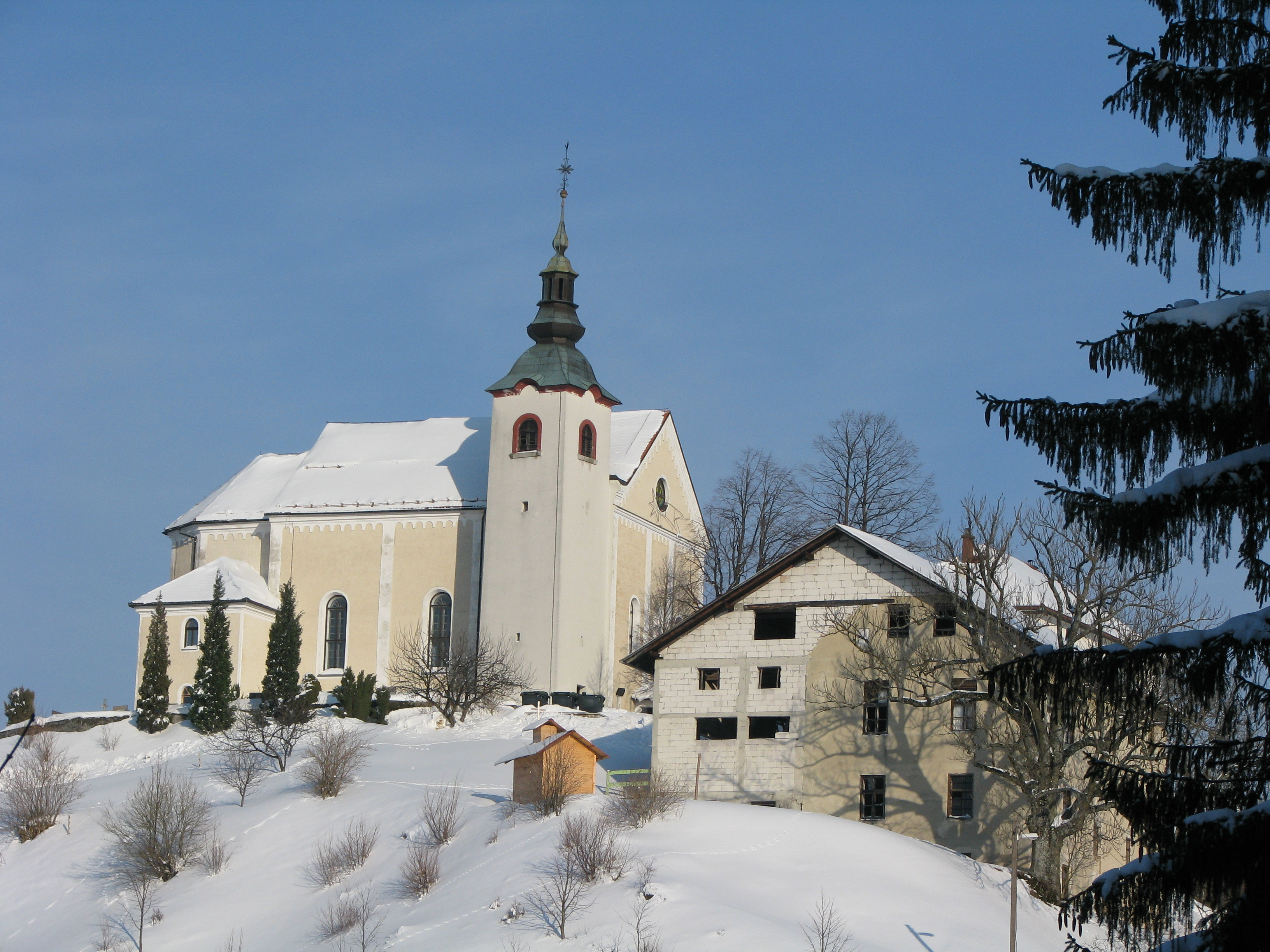 Church of Saint George in Podkum, Zagorje ob Savi municipality, Slovenia